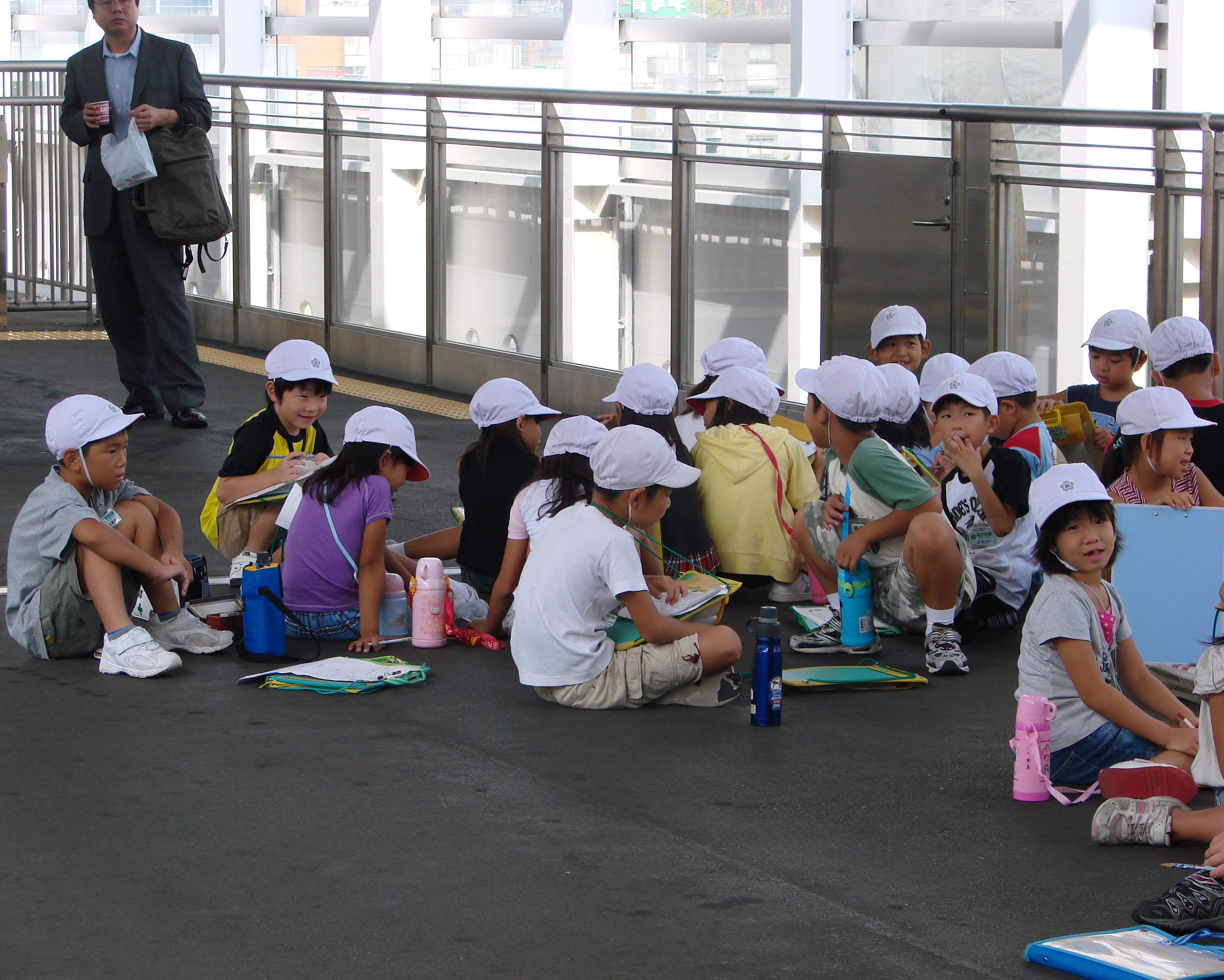 Elementary School Students on a field trip, waiting for a train. Kagoshima,JAPAN.